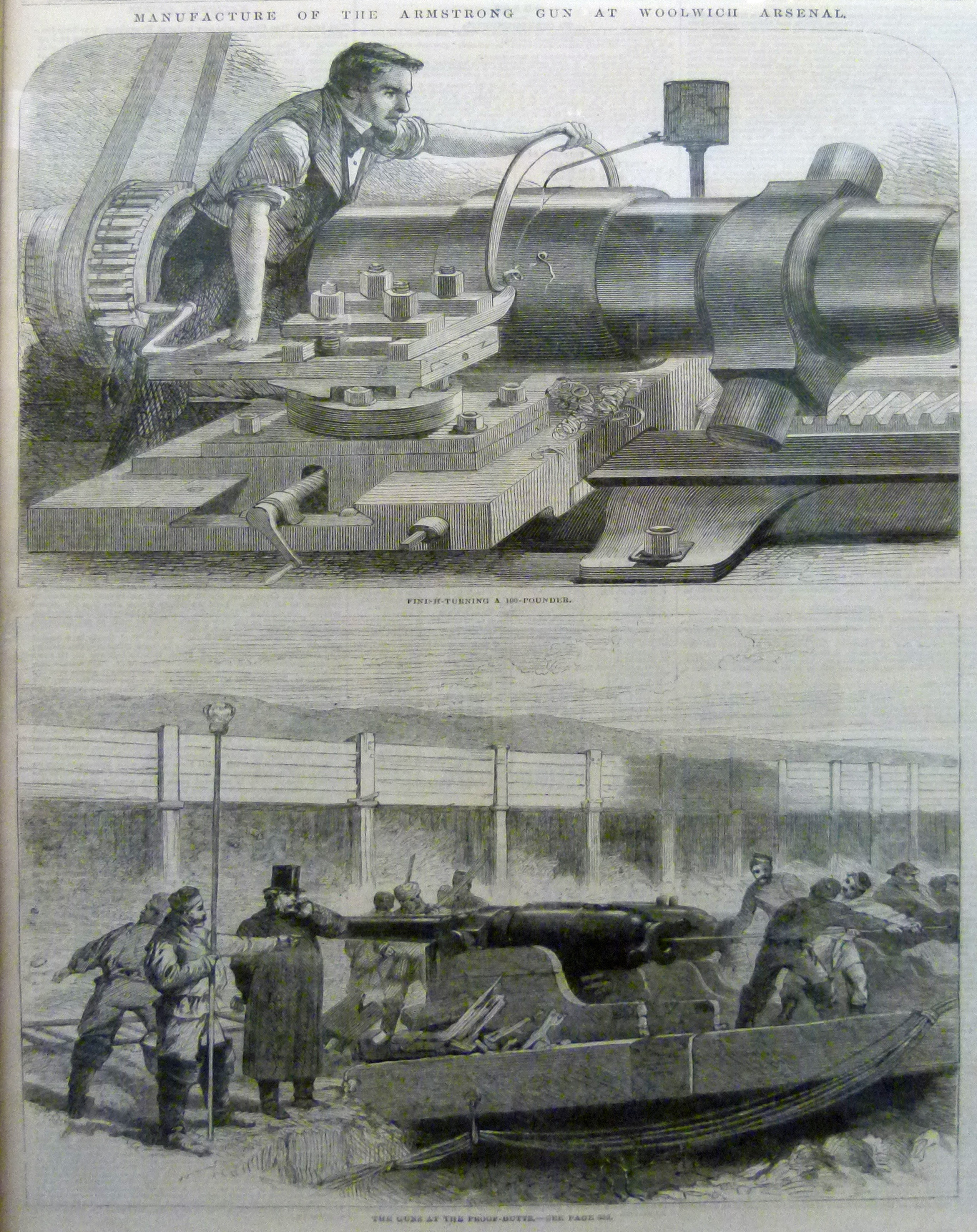 Manufacturing of the Armstrong gun at the Royal Arsenal in Woolwich. The Illustrated London News, 5 April, 1862. Greenwich Heritage Centre, Woolwich, south east London, UK.